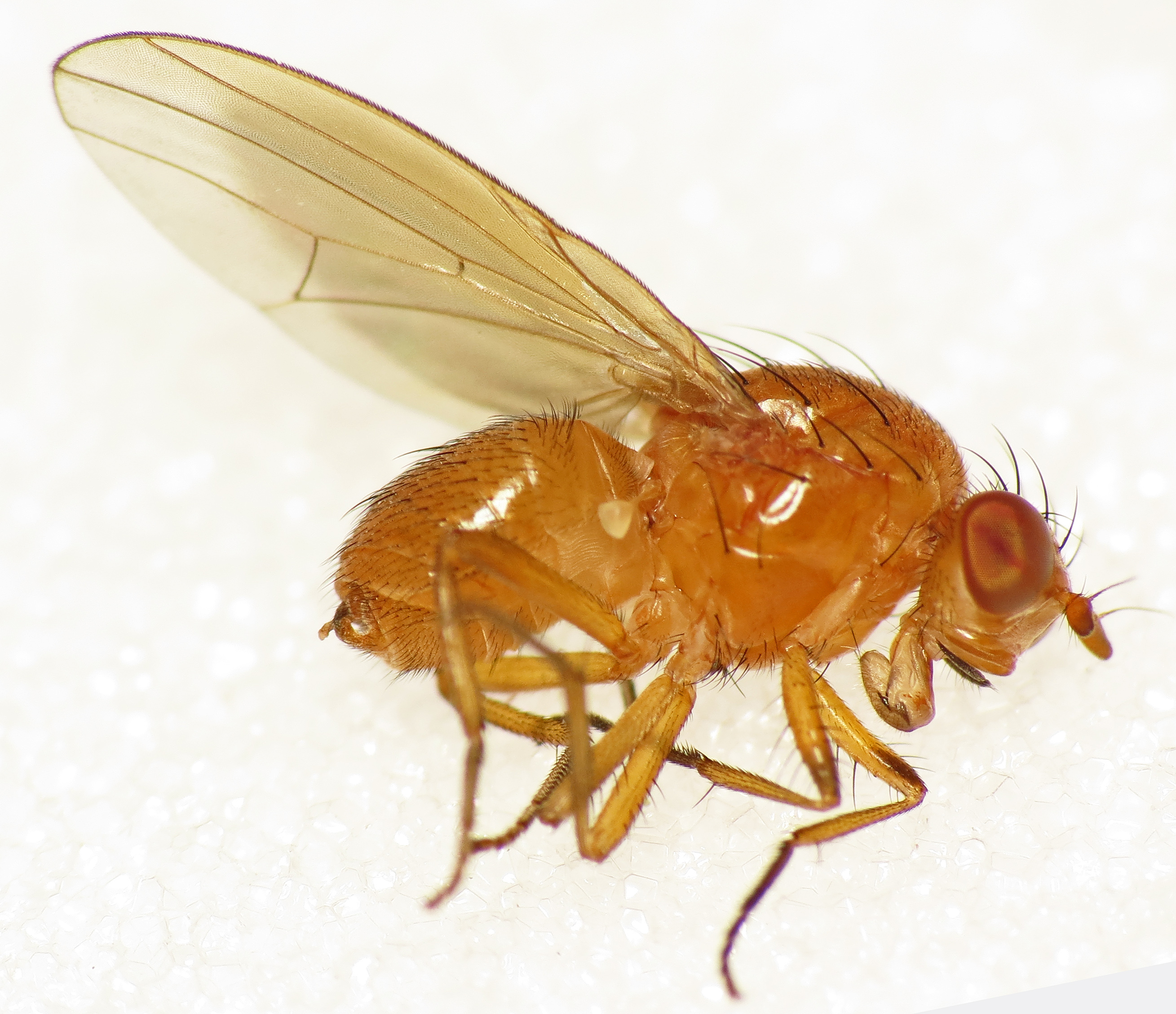 Found on 12 June 2014, Ipswich, Suffolk, UK (TM16644502) on a Rose bush in the back garden. Det. Paul Beuk ( No previous observations in East Suffolk on NBN Gateway. Paul Beuk pointed out that in this shot you can make out the characteristic shape of the female genitalia and the darkened tip of the fore femur which is also indicative of the species.